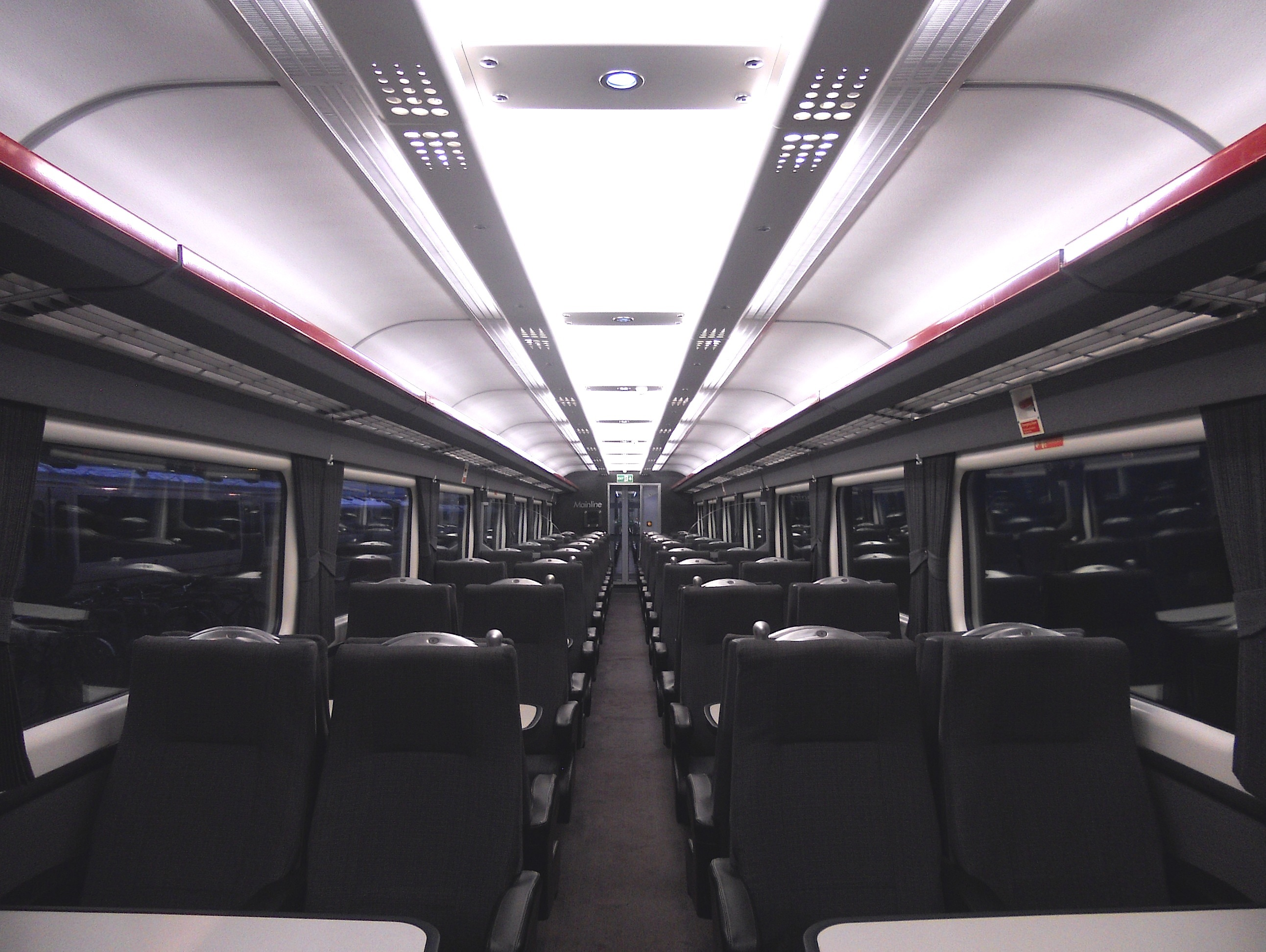 The interior of a Chiltern Railways Mainline refurbished Mark 3A Standard Open